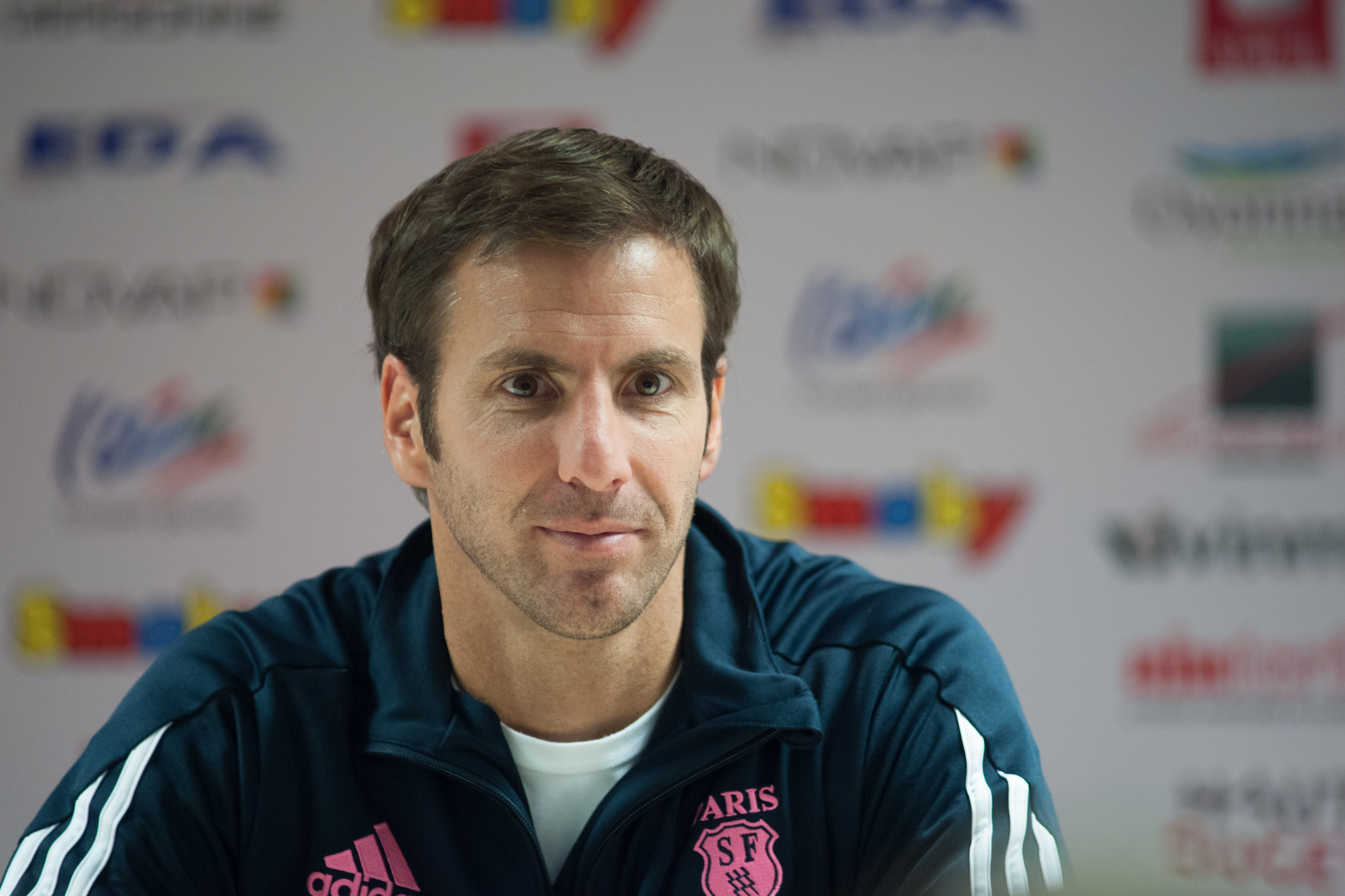 The making of this document was supported by Wikimedia CH. (Submit your project!) For all the files concerned, please see the category Supported by Wikimedia CH. US Oyonnax vs. Stade français, 30th August 2014